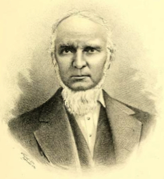 Portrait of Charles Drain